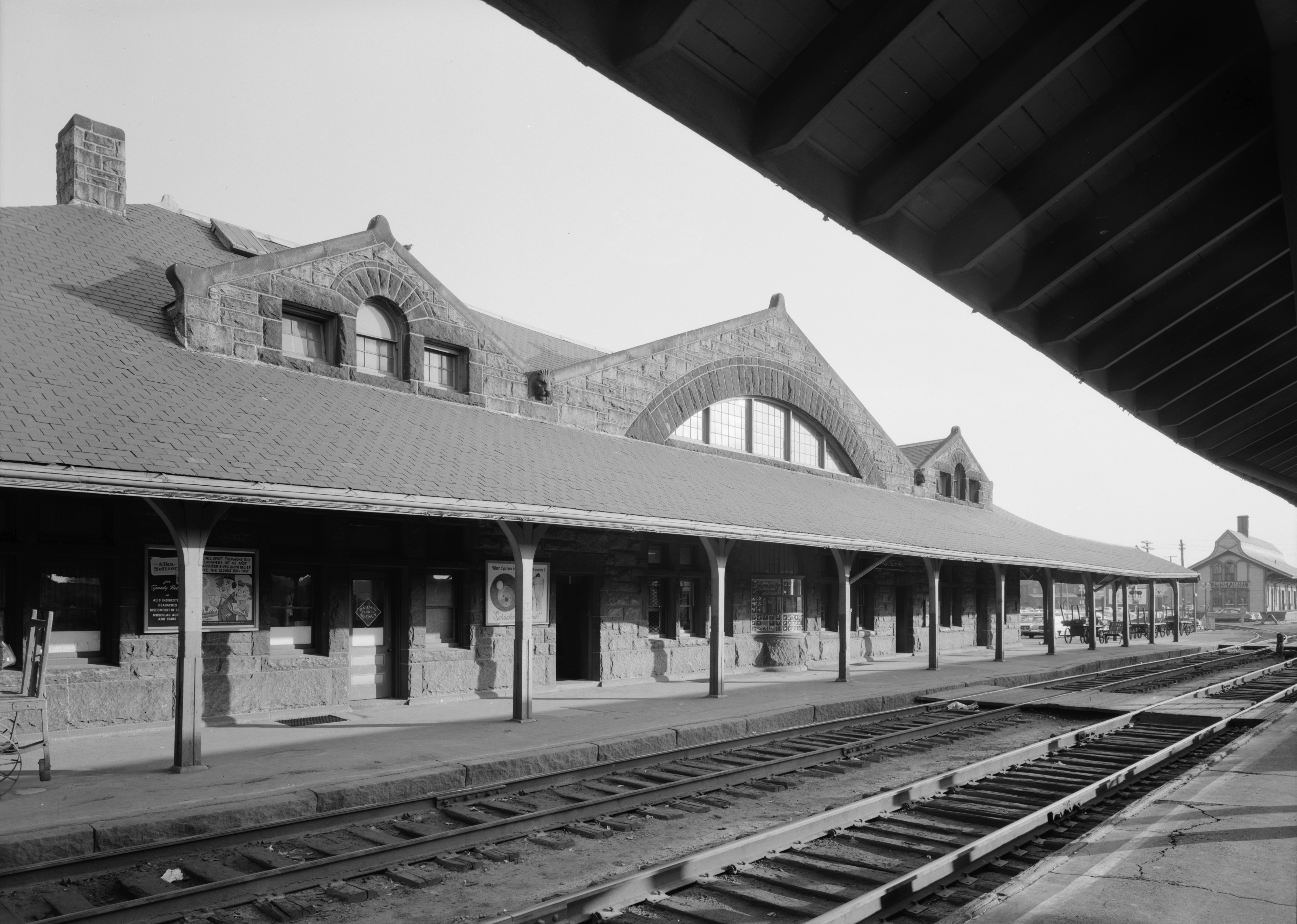 View of the Framingham Railroad Station in 1959. This view shows the north elevation of the station building (designed 1885 by H.H. Richardson and opened in 1883) and faces outbound. The original 1848 station, then a freight house, is visible in the background.Original caption: NORTH ELEVATION - Boston & Albany Railroad Station, Waverly Street, Framingham, Middlesex County, MA